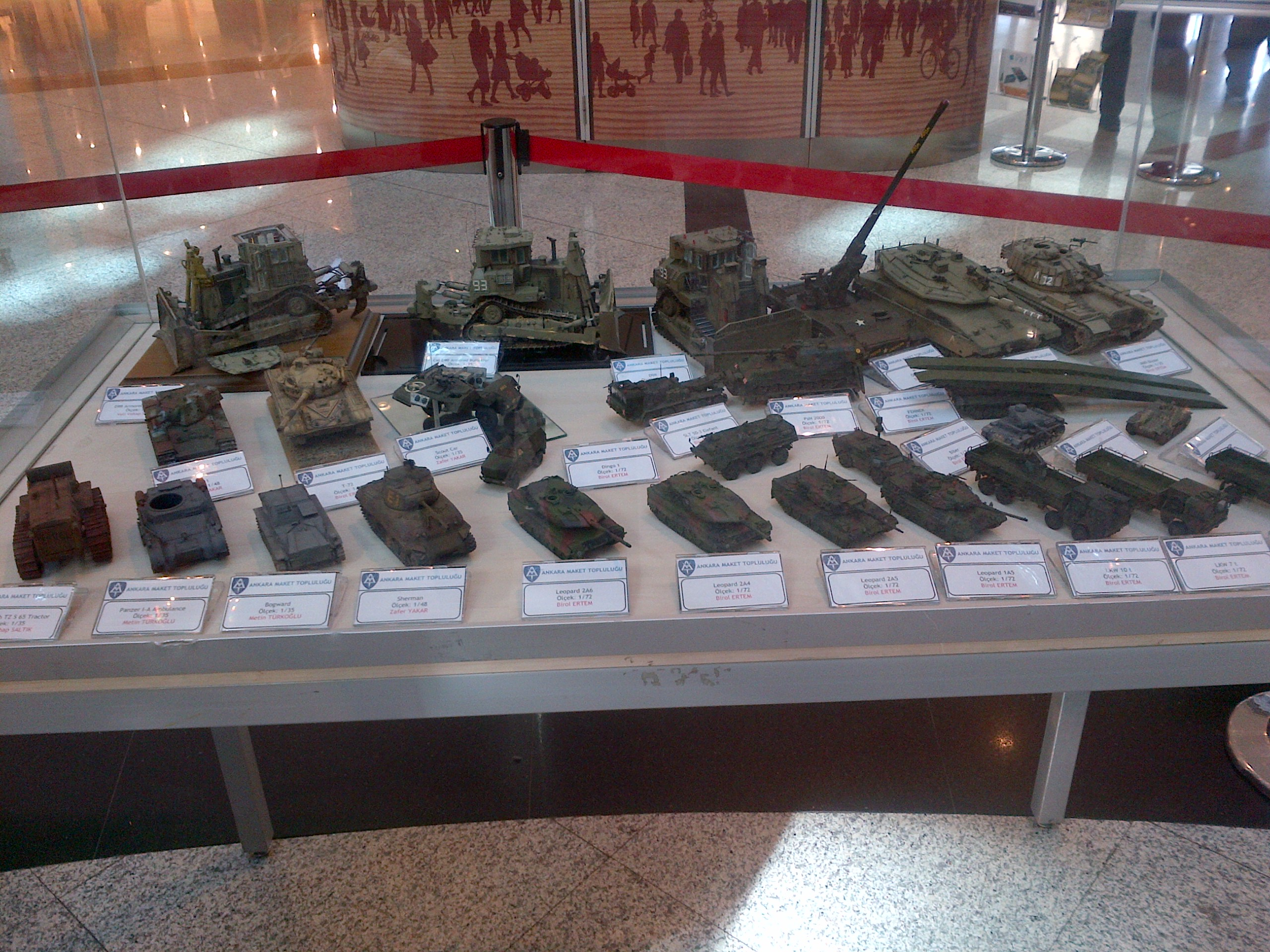 Models of military vehicles in a display cabinet